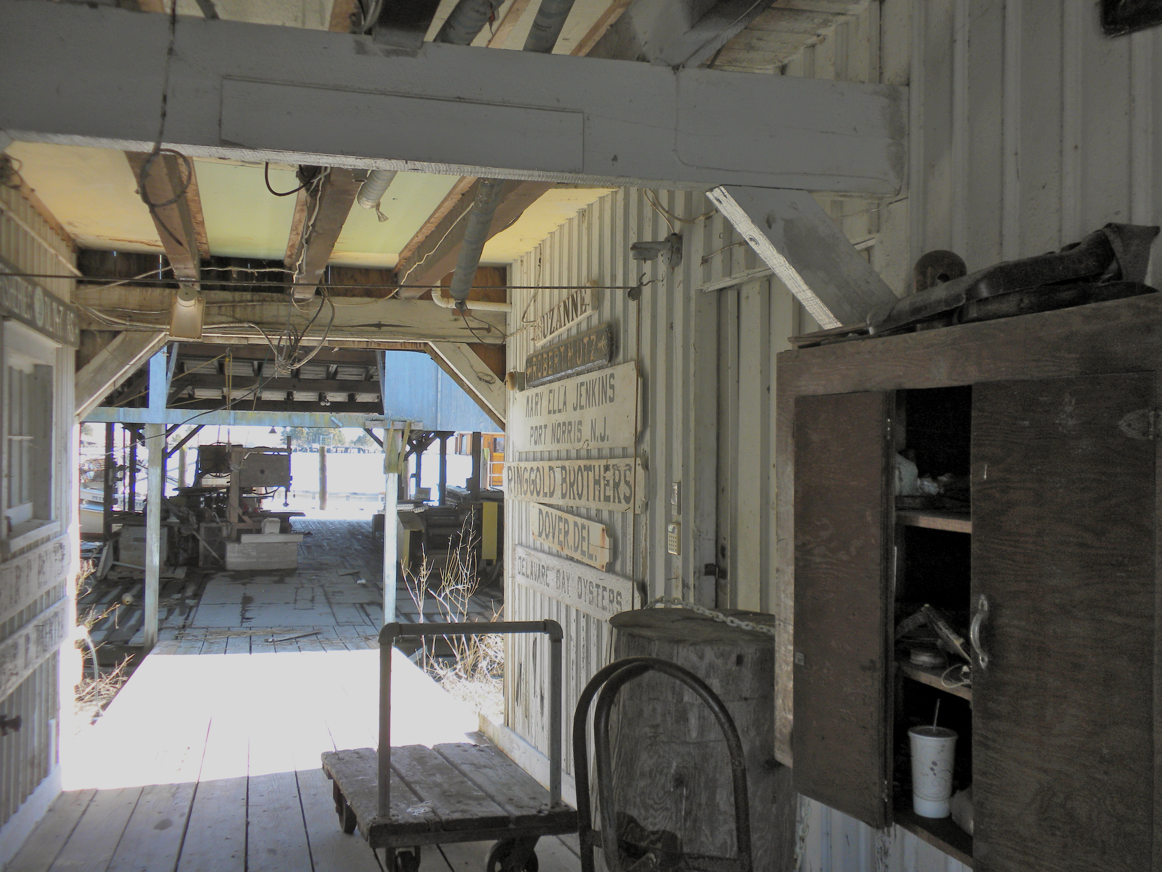 Bivalve Oyster Packing Houses and Docks on NRHP since February 28, 1996. At Shell Rd., Miller and Howard Sts., in Commercial Township, Bivalve, New Jersey. I'm not sure Bivalve is the name of a real municipality, but it is just a bit south of Port Norris. This is a still operating oyster fishery even if it looks a bit ramshackle. I believe the signs on the wall represent current or former boats that do business at the dock or thru the company, perhaps taken off the boats.